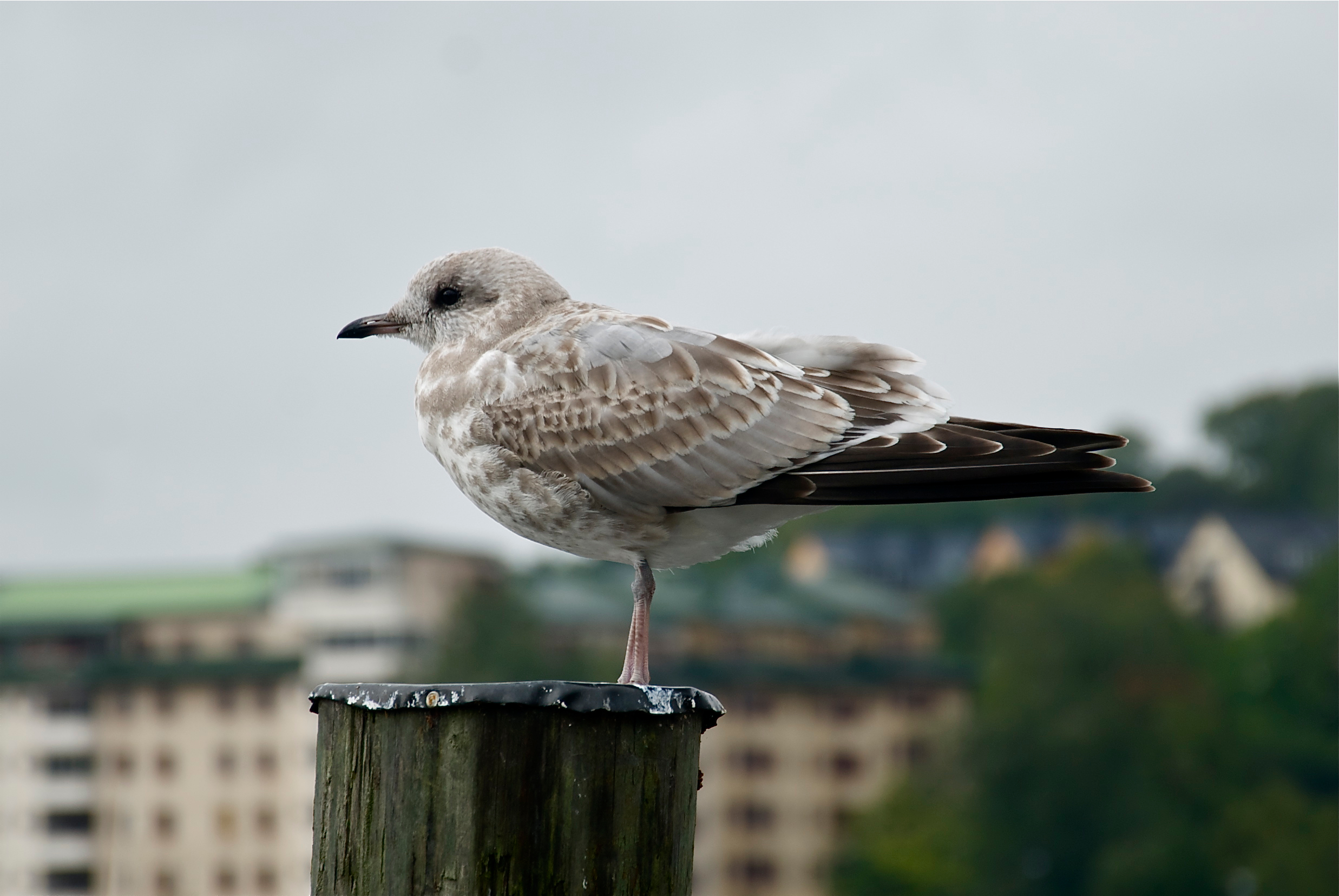 Juvenile Common Gull (Larus canus) in Södra Hammarbyhamnen, Stockholm.